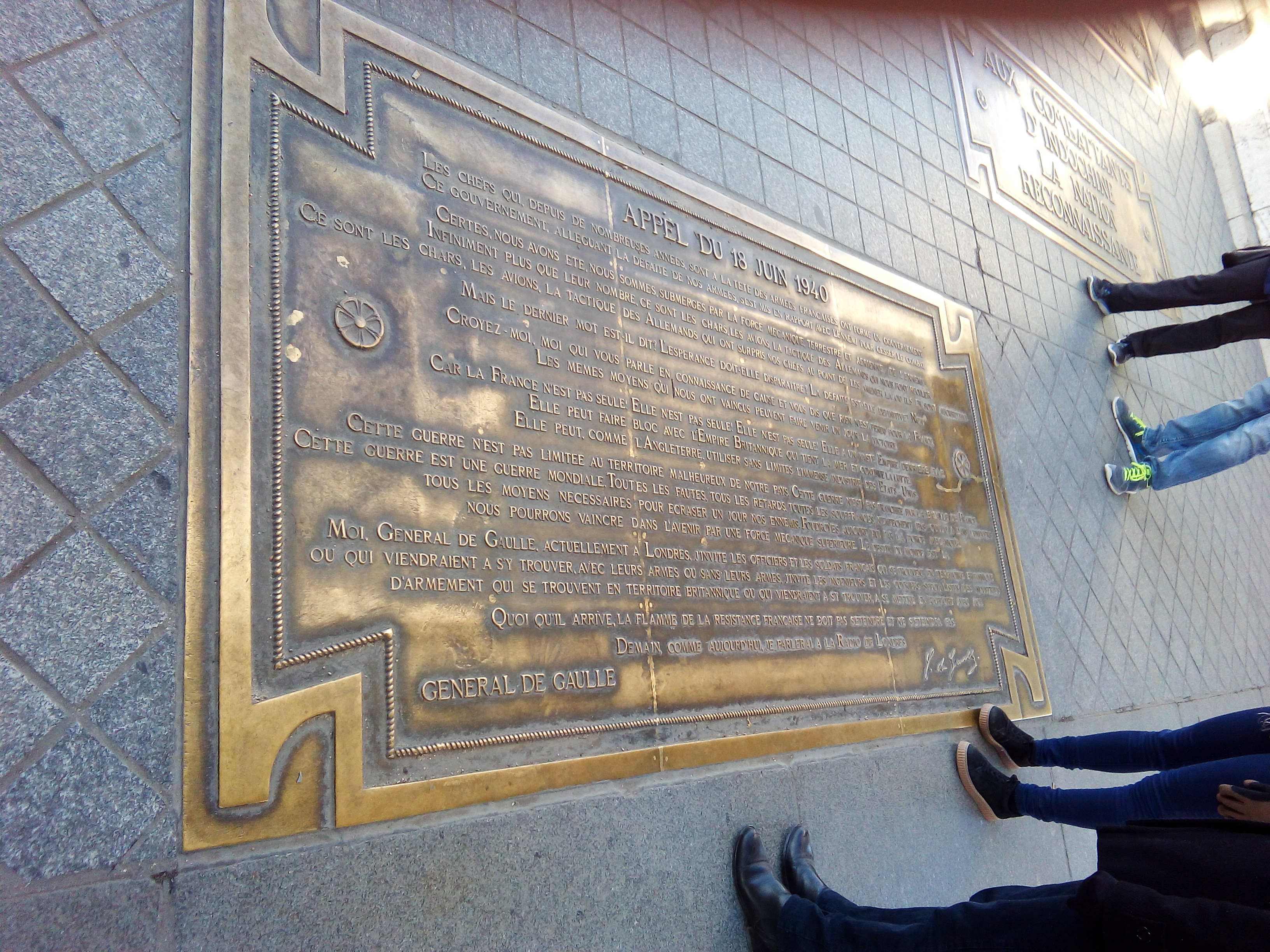 De Gaulle speech plaque in Arc de Triomphe